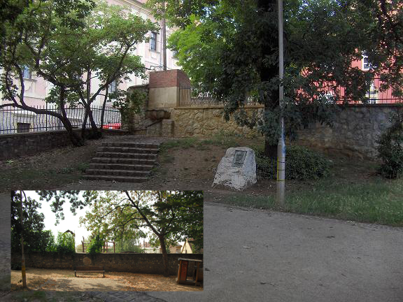 The renovation of the Park Esperanto in Pécs, Hungary